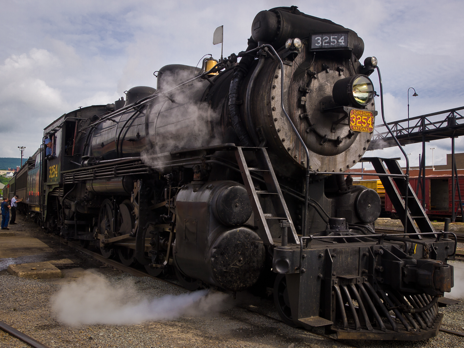 Steam locomotive CN3254 ready to board passengers at Steamtown. Photo taken with an Olympus E-5 in Steamtown National Historic Site, PA, USA. Cropping and post-processing performed with Adobe Lightroom.